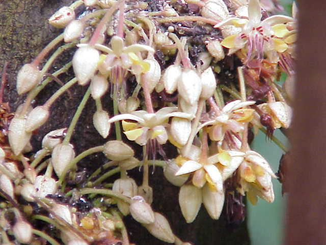 Species: Theobroma cacao Family: Sterculiaceae Image No. 3